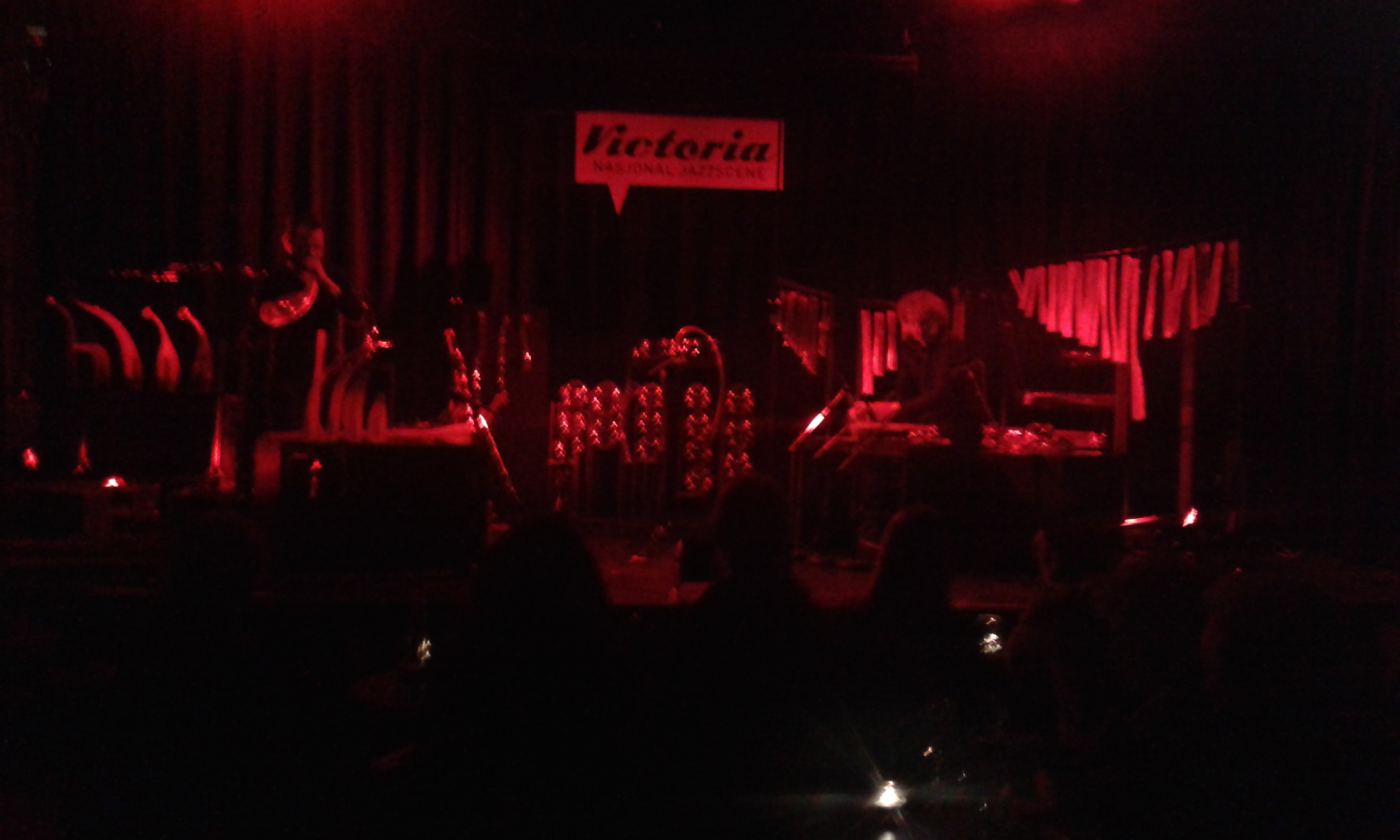 Arve Henriksen and Terje Isungset at Victoria,Oslo 2015-12-04.